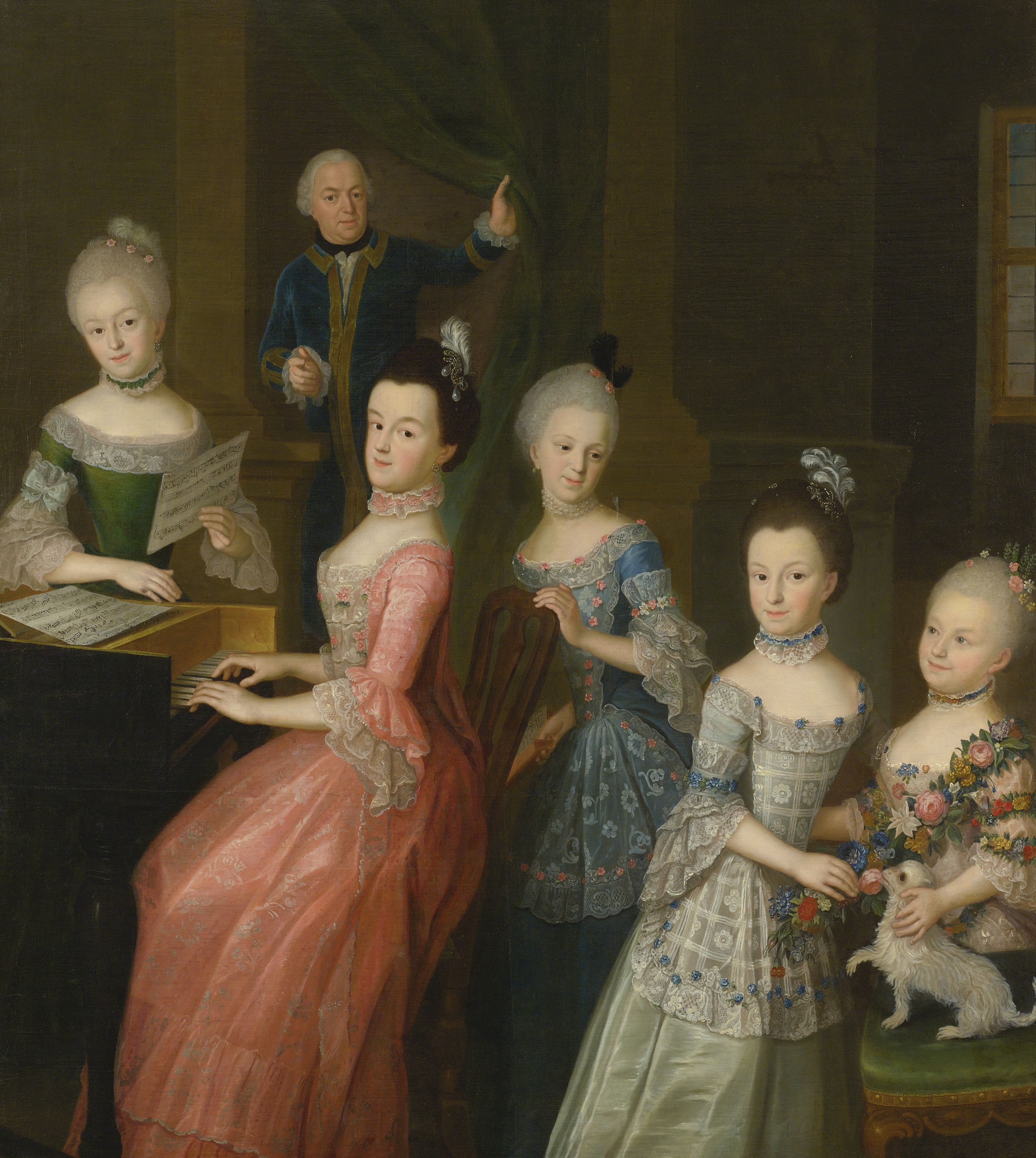 Portrait of Count Johann Casimir von Schlieben and his five daughters.